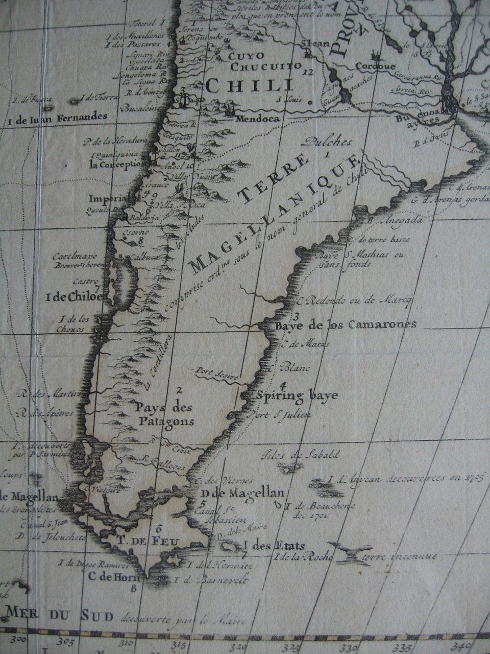 The southern parts of South America with the Falkland Islands. Cropped from a French map of South America, c. 1710